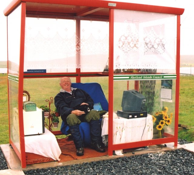 Unst Bus Shelter, Shetland. This bus shelter in Unst, Baltasound is possibly the most luxuriously equipped bus shelter in the world.